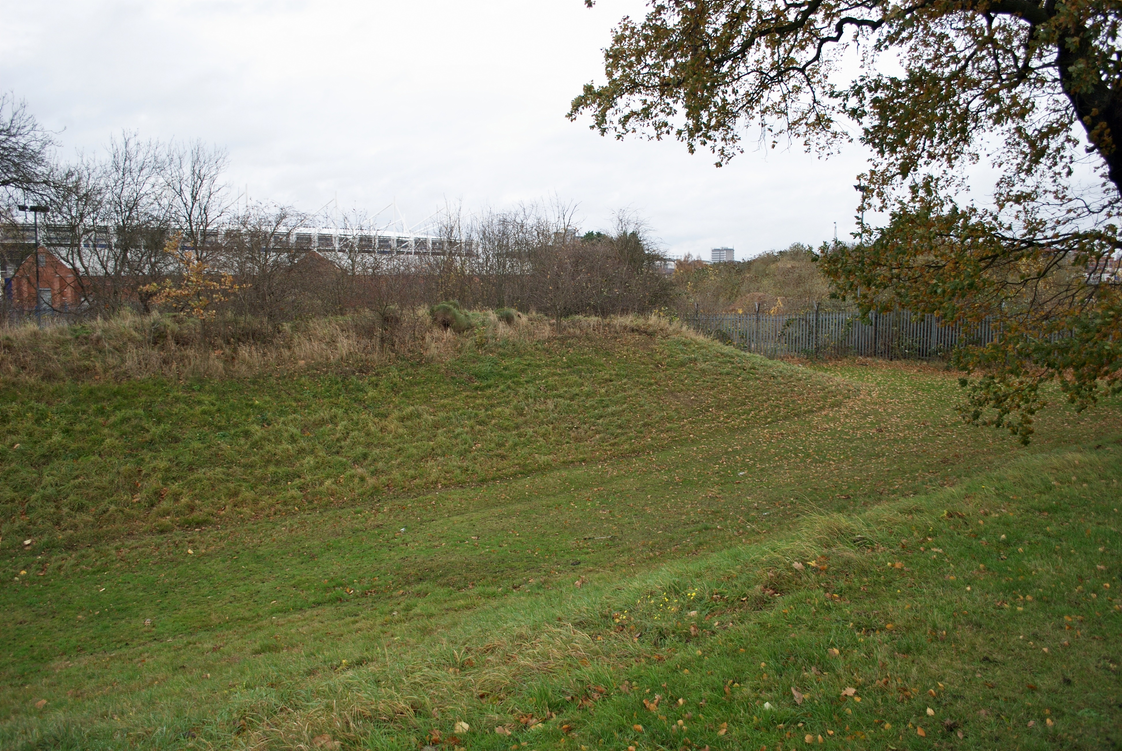 A remaining section of Raw Dykes, a Roman earthwork in Leicester. It is a Scheduled Monument